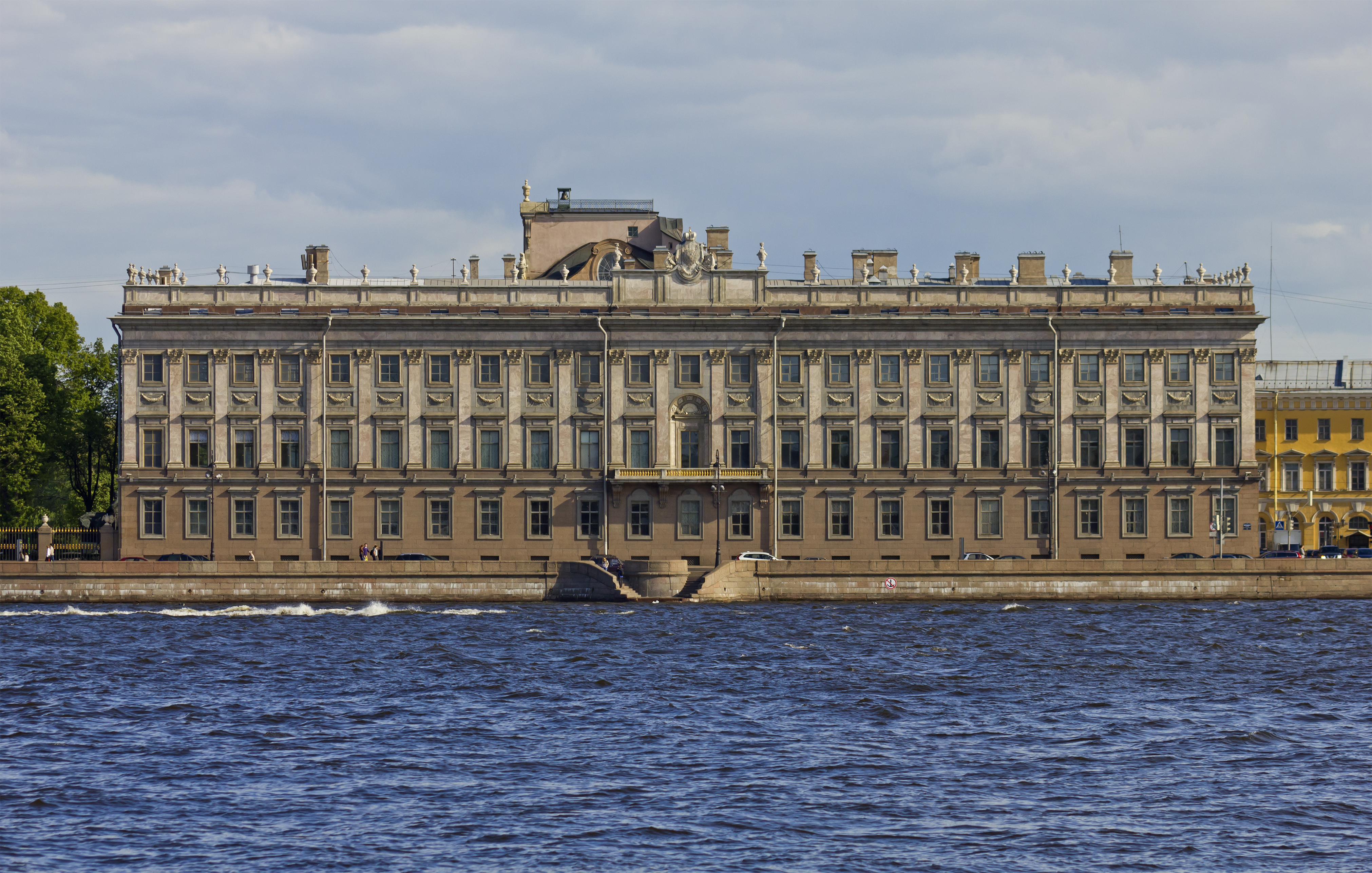 Saint Petersburg, Russia. Palace Embankment, house 6 (Marble Palace).